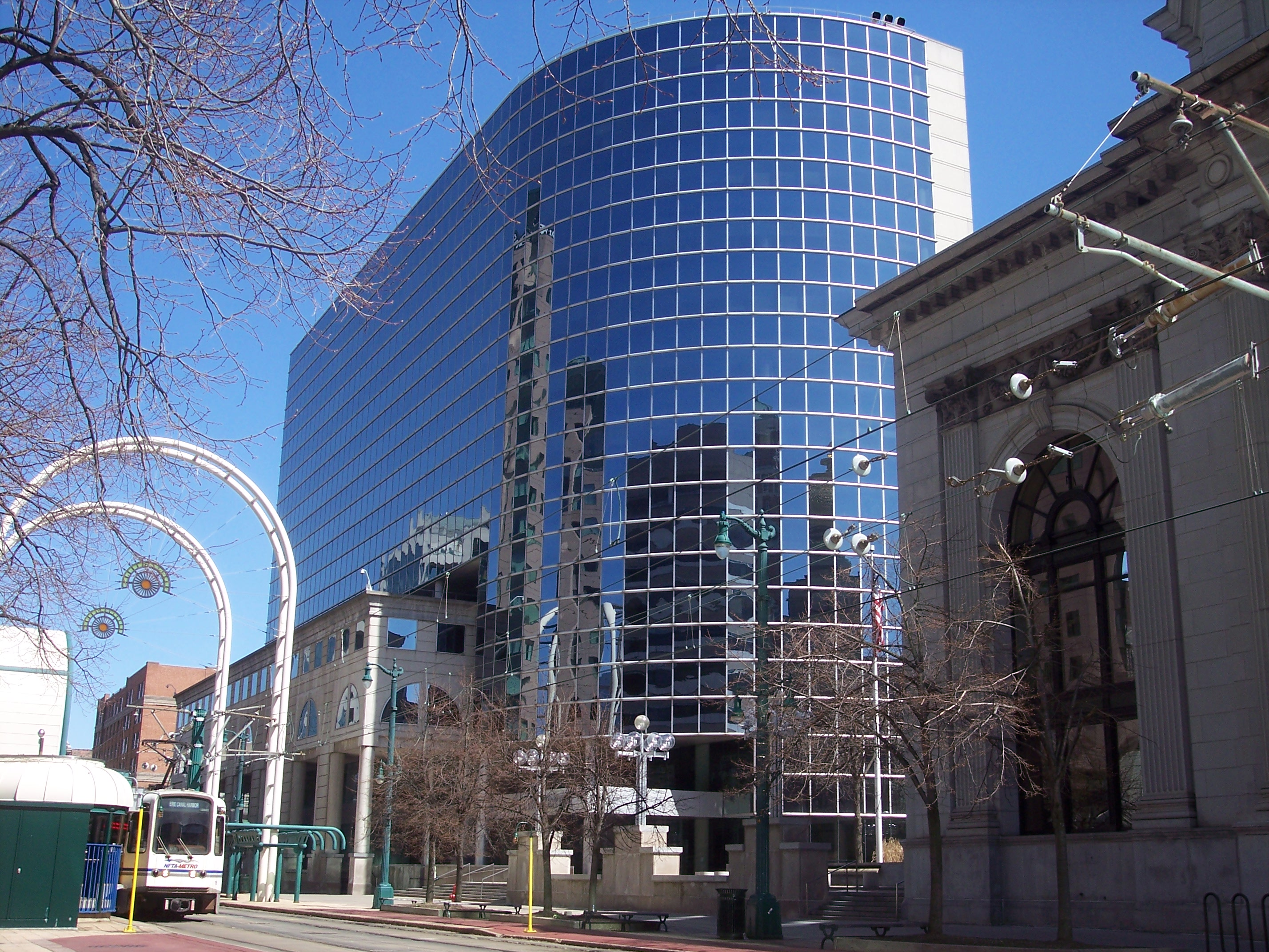 M&T Center (Main street side), 3 Fountain Plaza, Buffalo NY 14203